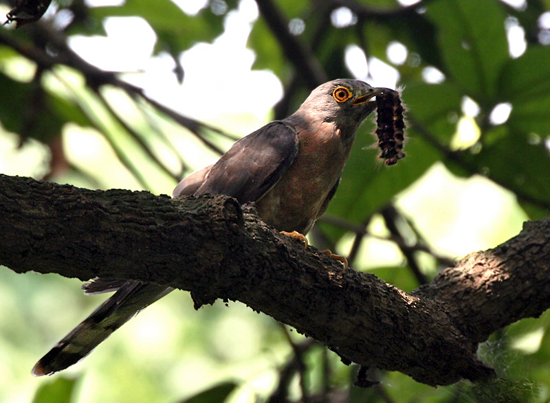 Common Hawk Cuckoo Cuculus varius (syn. Hierococcyx varius) in Kolkata, West Bengal, India.